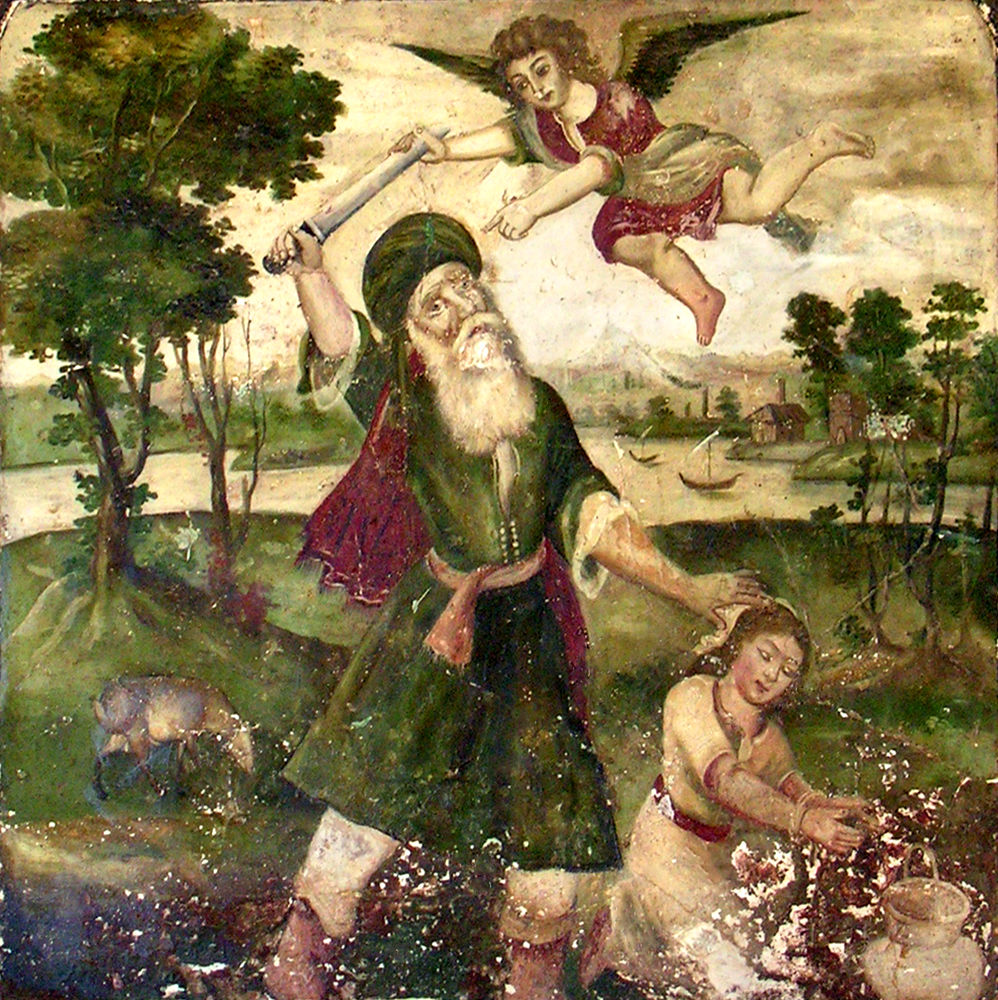 Fresco with image of Abraham to sacrifice his son, Ishmael (Islamic version) on a Haft Tanan museum wall in Shiraz.